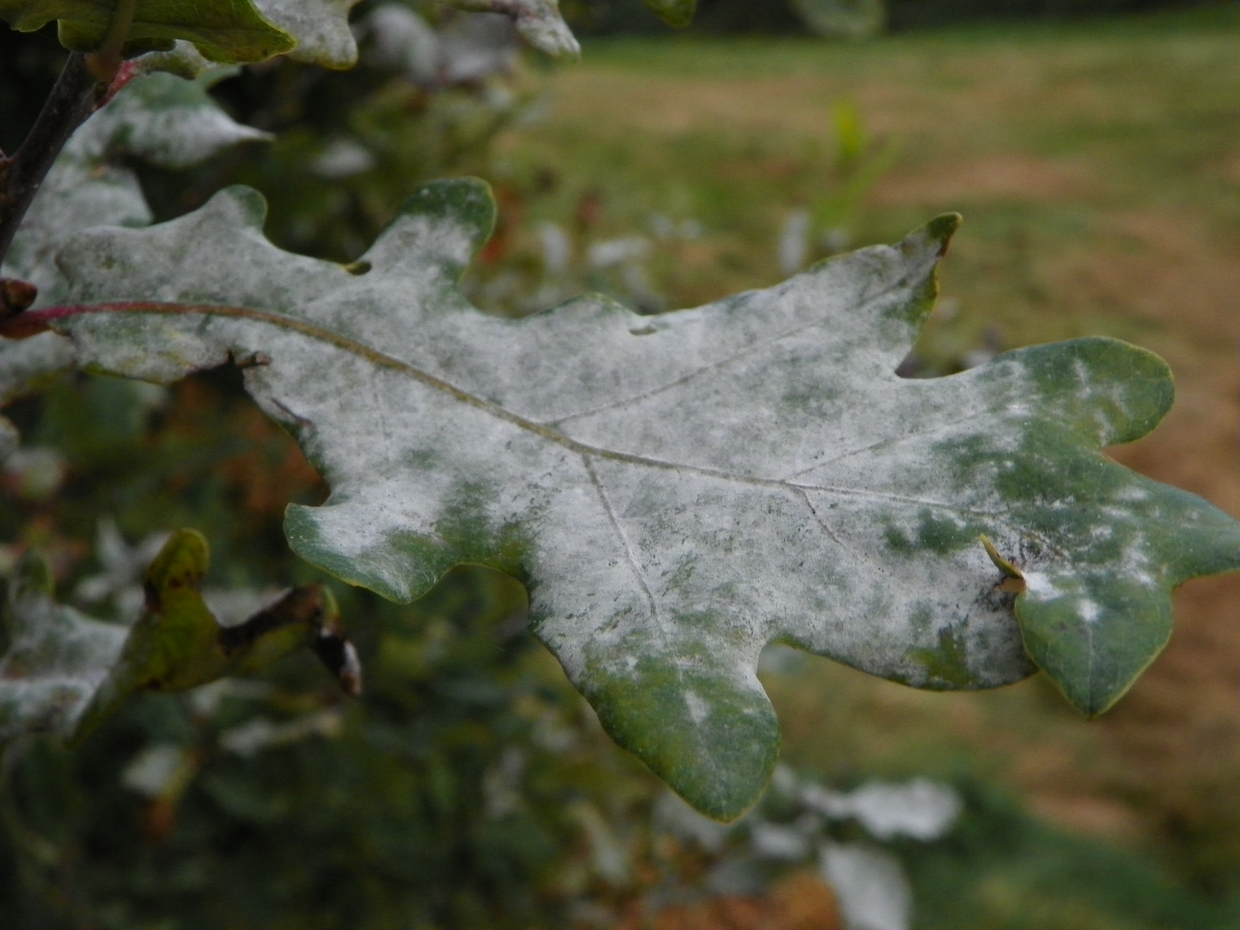 Oak Mildew (Microsphaera alphitoides syn Erysiphe alphitoides), on leaf of Pedunculate Oak (Quercus robur), Colney Heath, Hertfordshire, 19 September 2012.